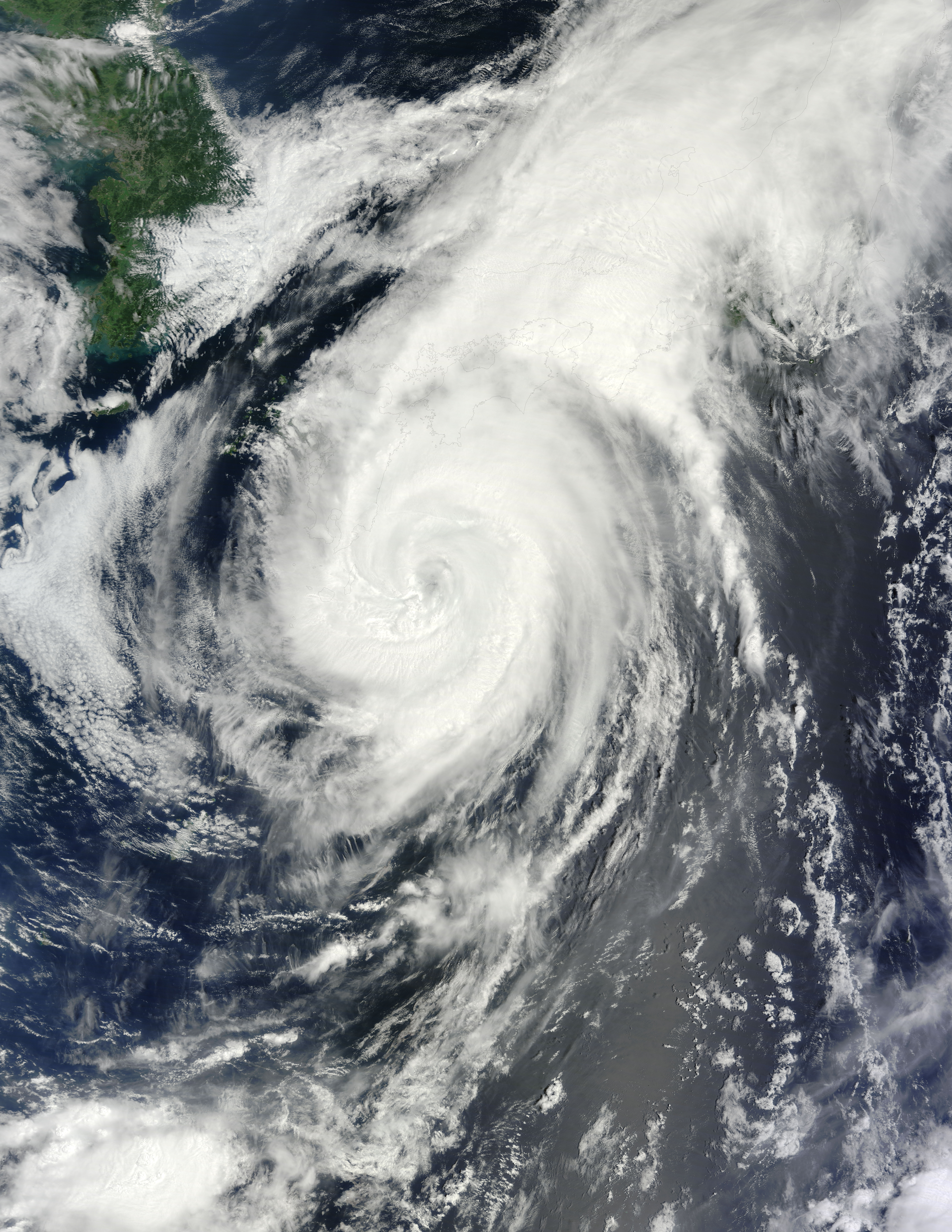 Typhoon Halong (11W) over Japan on August 9,2014